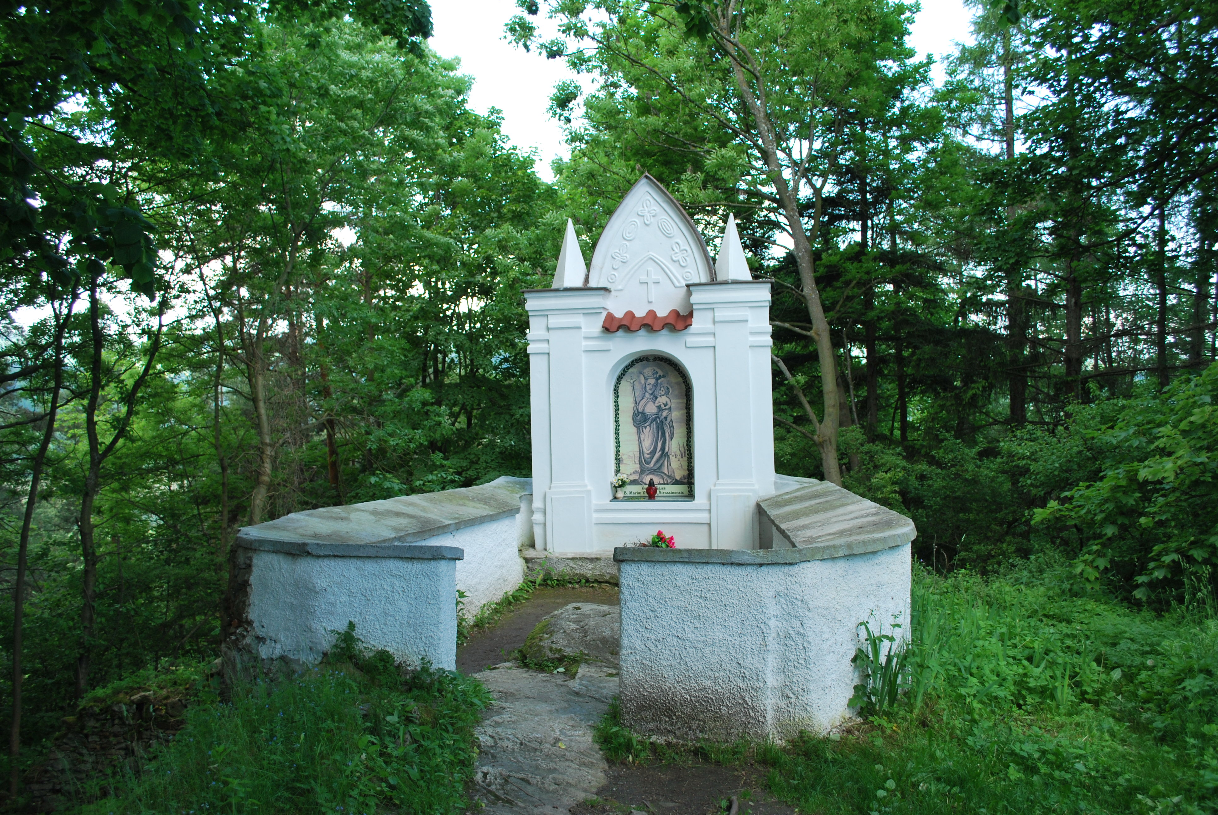 Strašín village in Klatovy District, Czech republic. Chapel This photograph was taken within the scope of the 'Czech Municipalities Photographs' grant.